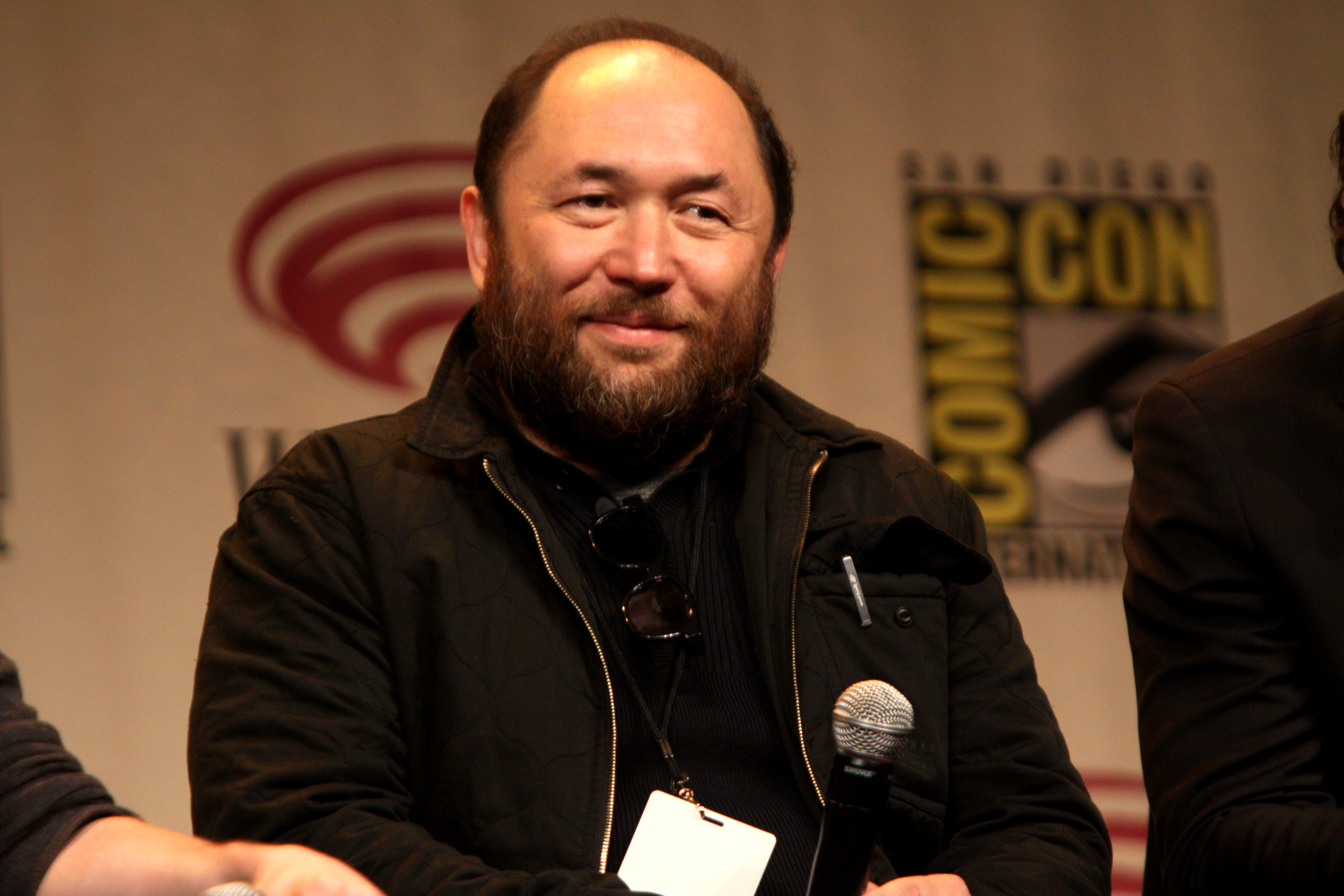 Timur Bekmambetov speaking at the 2012 WonderCon in Anaheim, California.